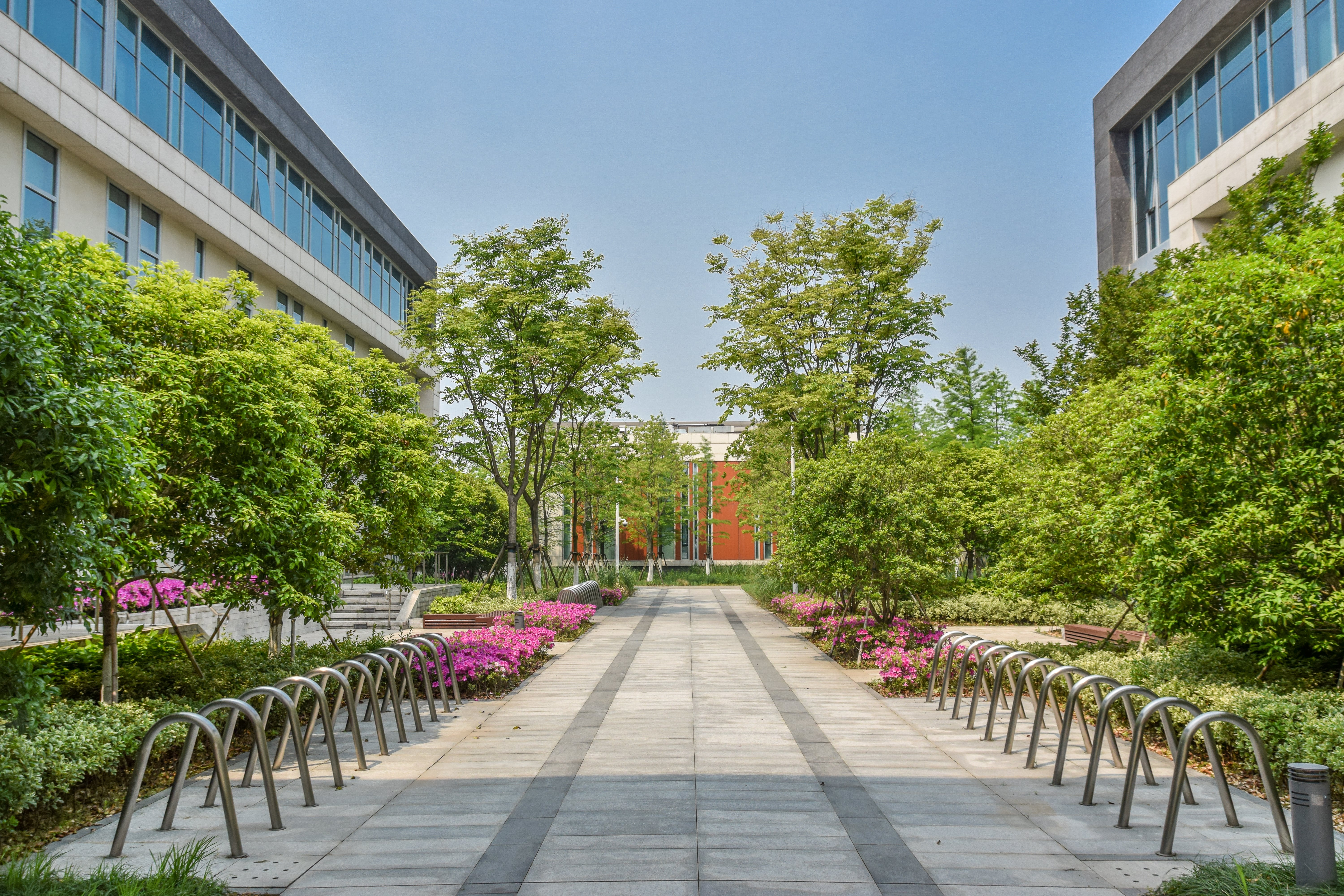 A three-story, 200-bed student residence with suites emulate the Unité model of Le Corbusier—each suite is entered from the second floor, with shared living on that level and four bedrooms (all singles) and two shared bathrooms above or below. The Faculty Residence is a two-story building that has 16 units of faculty apartments, each with a live/work loft concept.